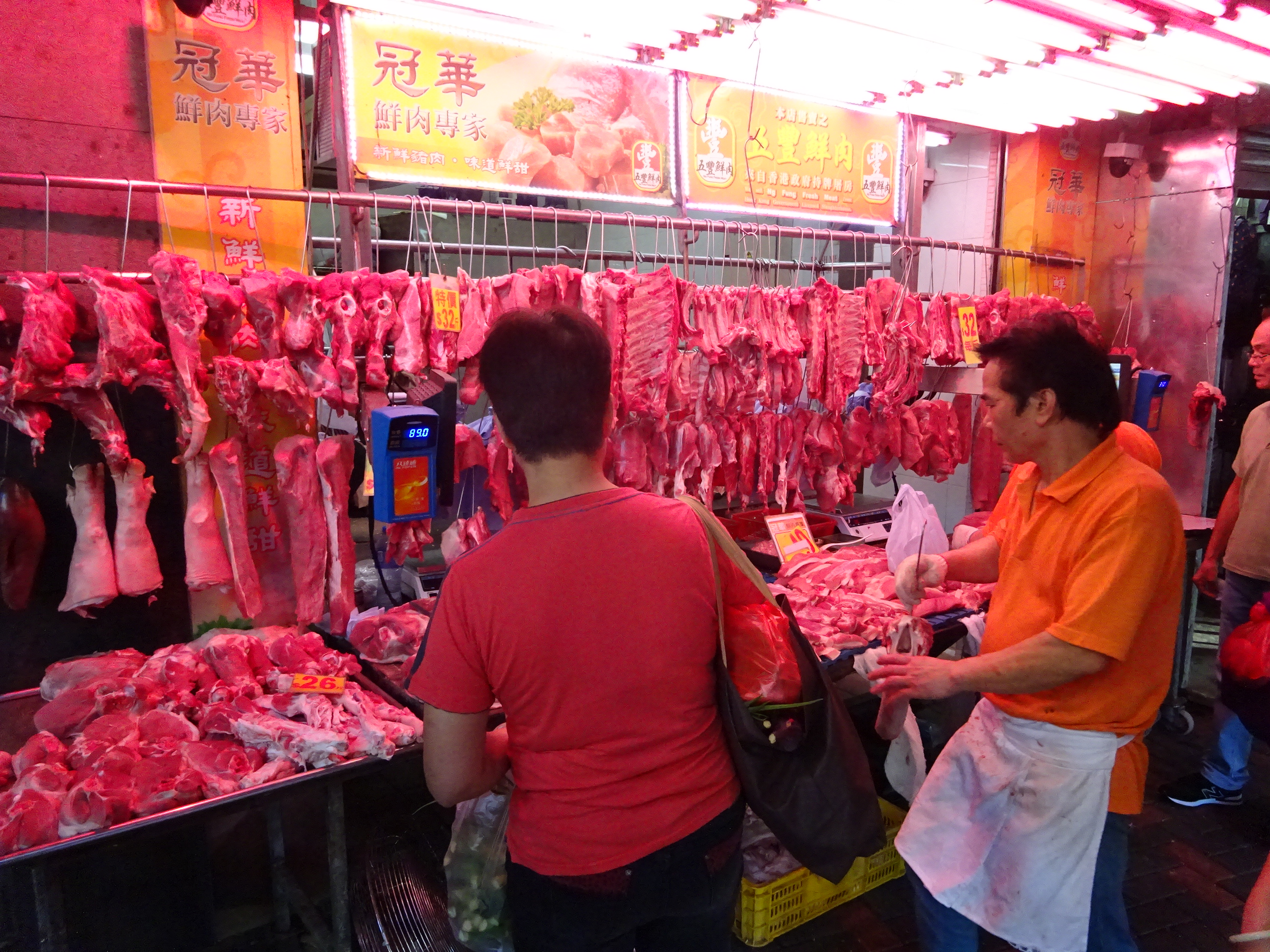 Butcher's shop, Ngau Tau Kok Road, Kwun Tong, Hong Kong